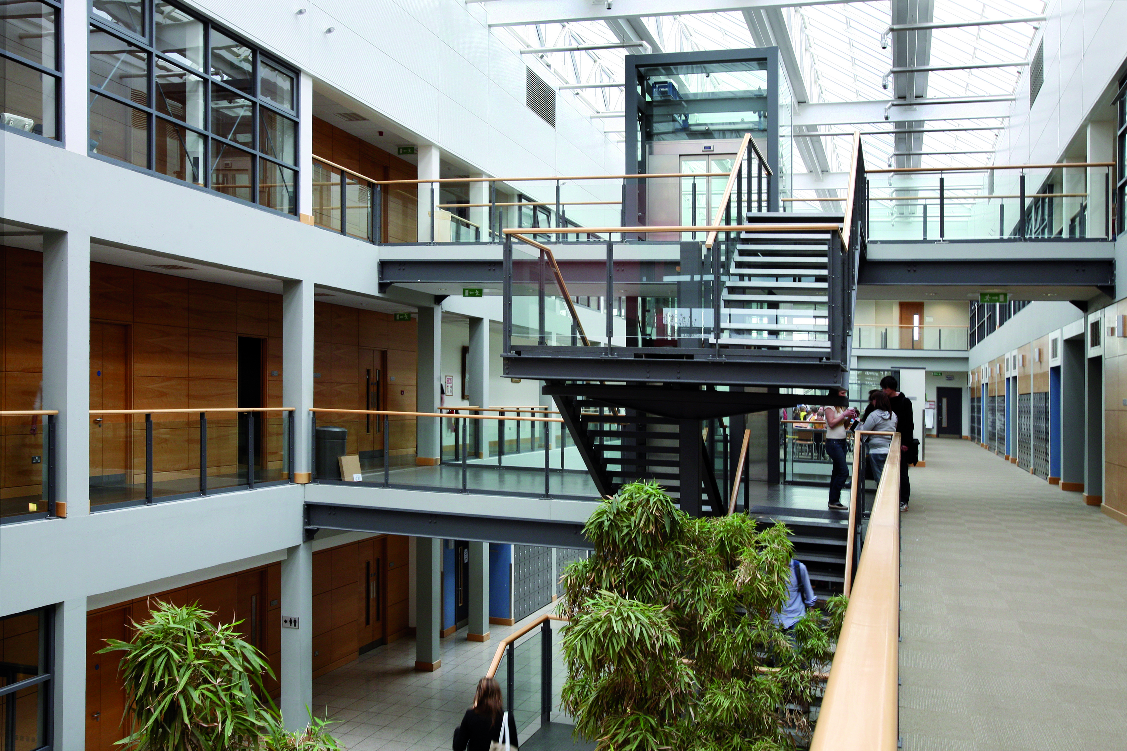 Interior of University College Dublin (UCD) Quinn School of Business, Dublin, Ireland